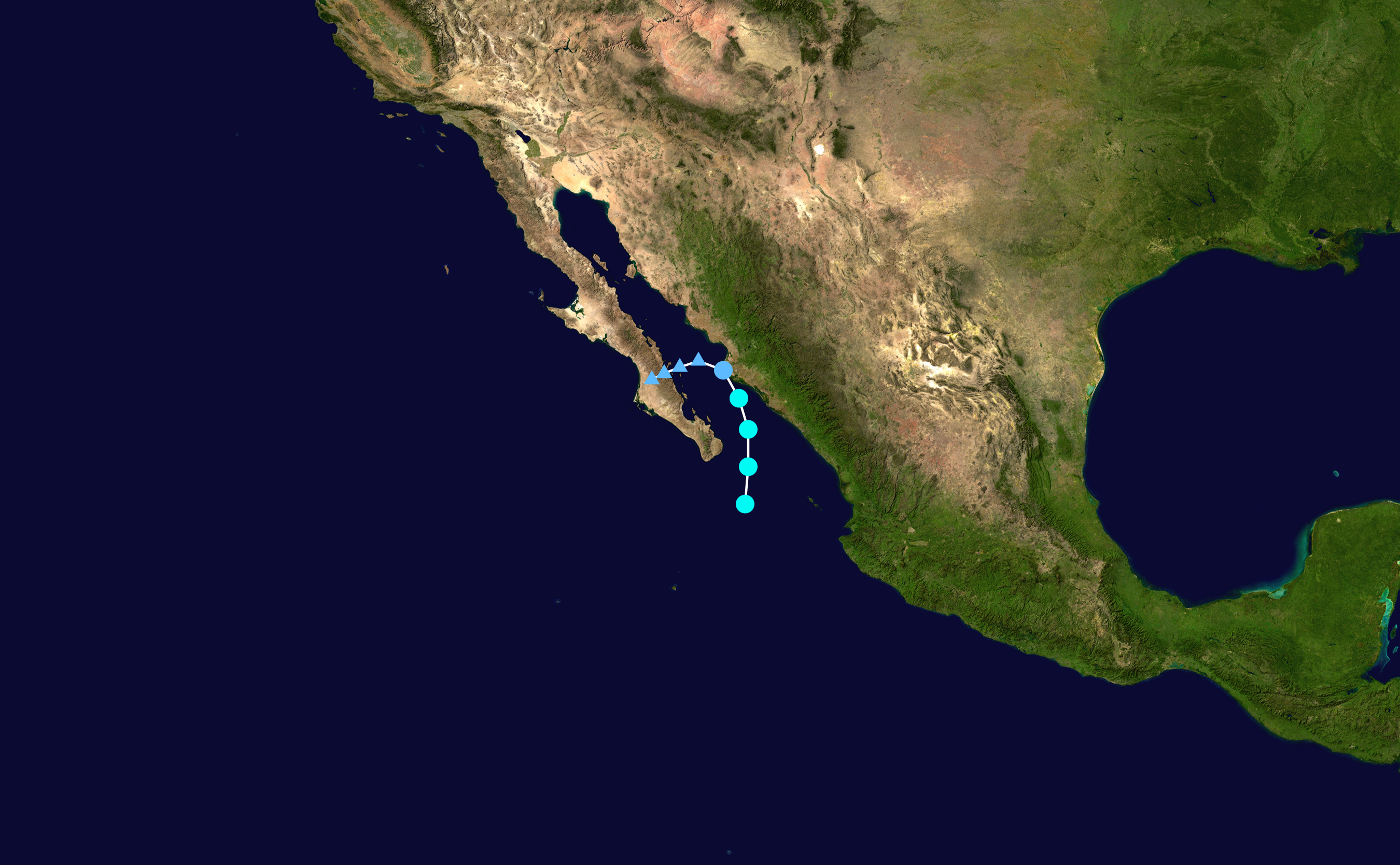 Track map of Tropical Storm Norman of the 2012 Pacific hurricane season. The points show the location of the storm at 6-hour intervals. The colour represents the storm's maximum sustained wind speeds as classified in the Saffir–Simpson scale (see below), and the shape of the data points represent the nature of the storm, according to the legend below. Saffir–Simpson scale Tropical depression≤38 mph≤62 km/h Category 3111–129 mph178–208 km/h Tropical storm39–73 mph63–118 km/h Category 4130–156 mph209–251 km/h Category 174–95 mph119–153 km/h Category 5≥157 mph≥252 km/h Category 296–110 mph154–177 km/h Unknown Storm type Tropical cyclone Subtropical cyclone Extratropical cyclone / Remnant low / Tropical disturbance / Monsoon depression